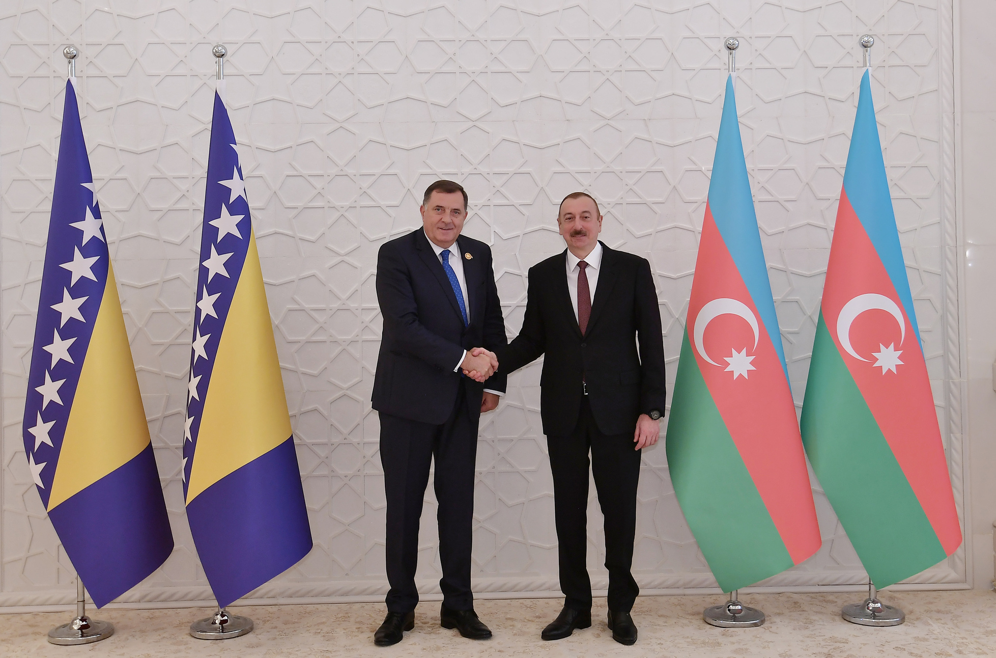 Ilham Aliyev met with Chairman of Presidency of Bosnia and Herzegovina Milorad Dodih